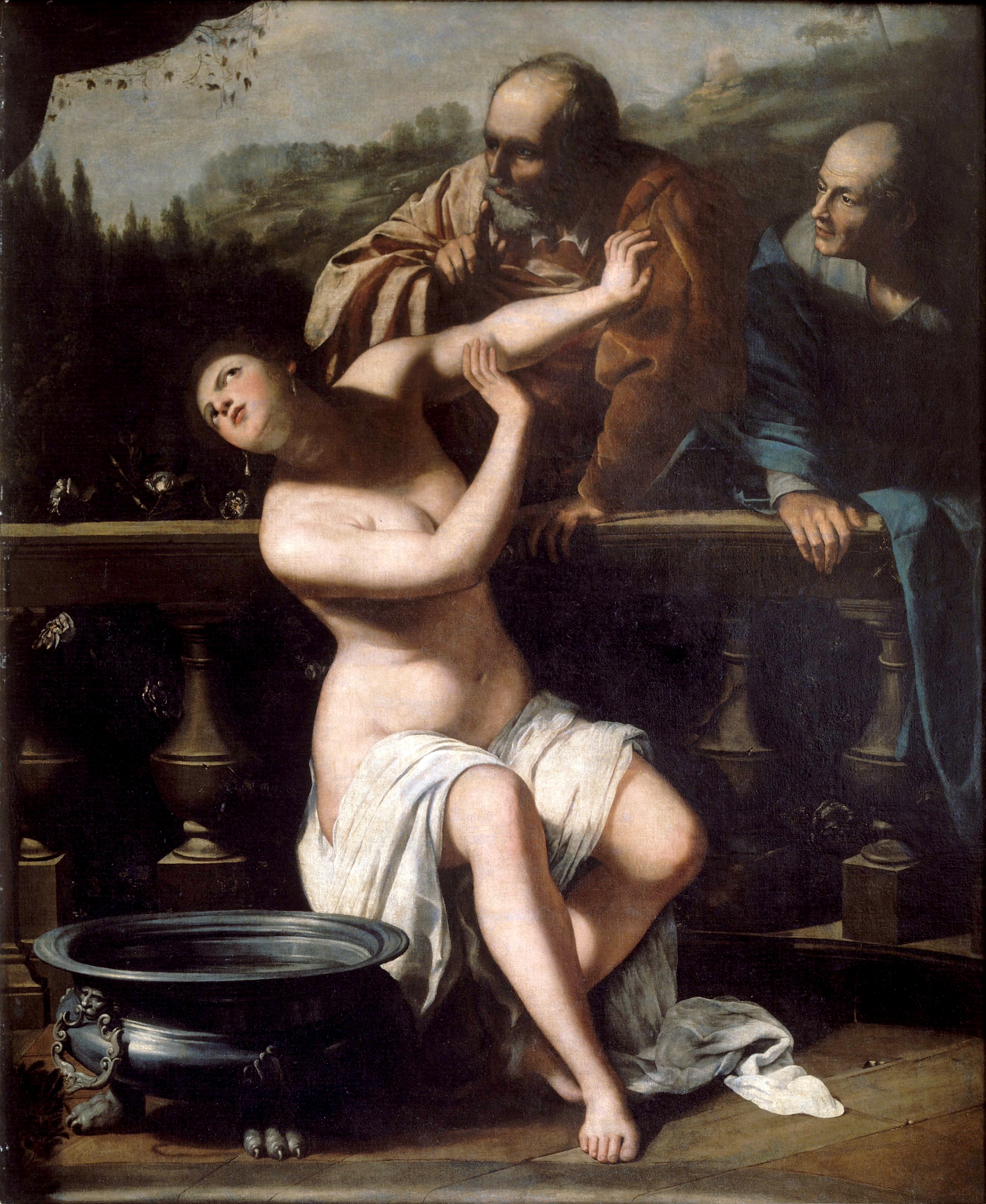 Depicted person: Susanna